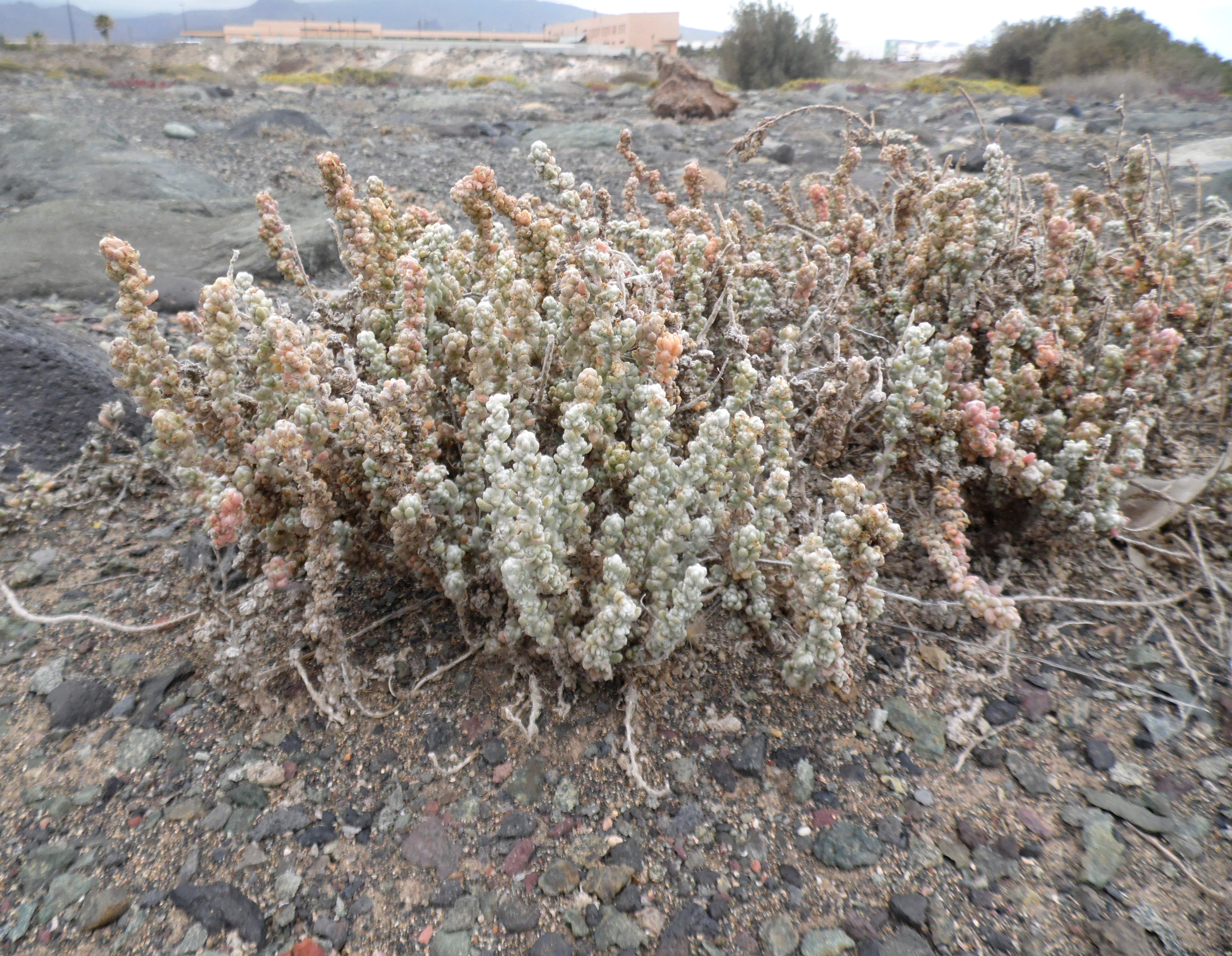 Bassia tomentosa in Pozo de Izquierdo on Gran Canaria